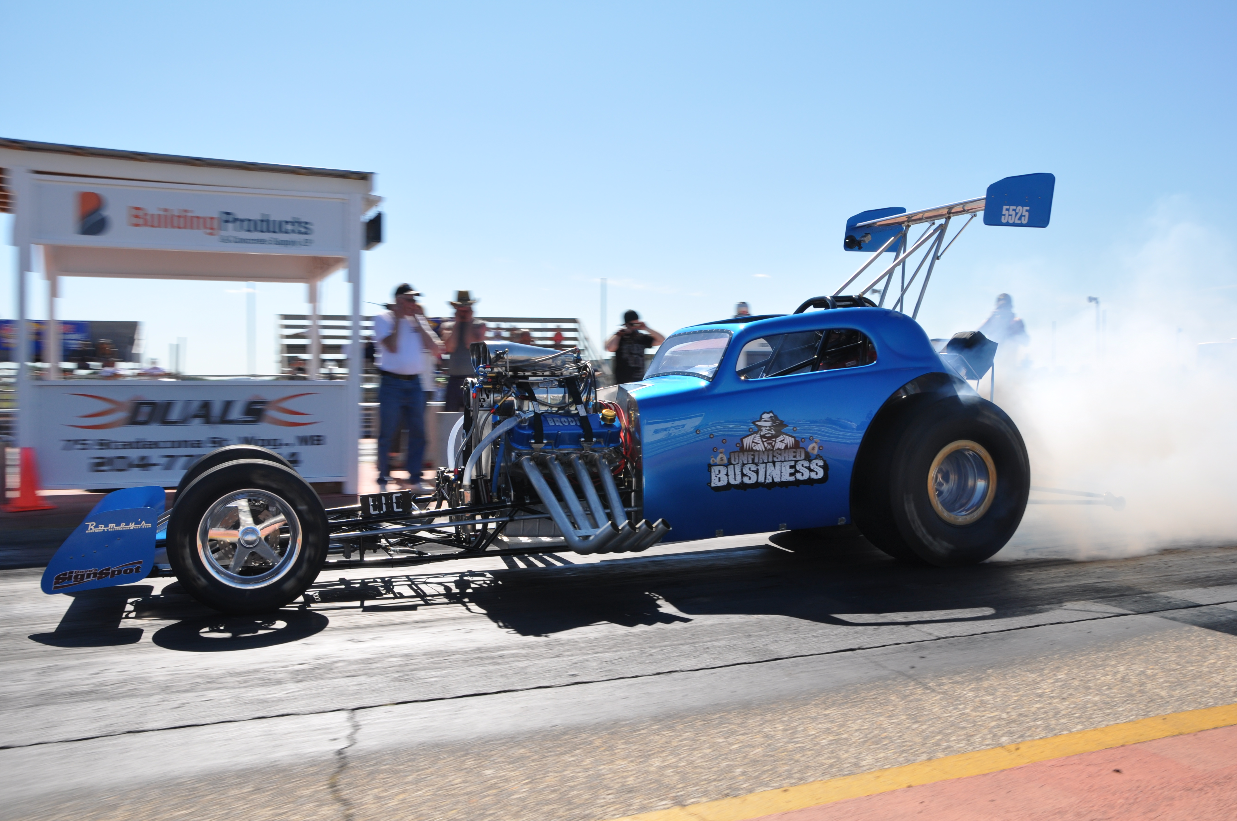 Blown Altered, Fiat Body